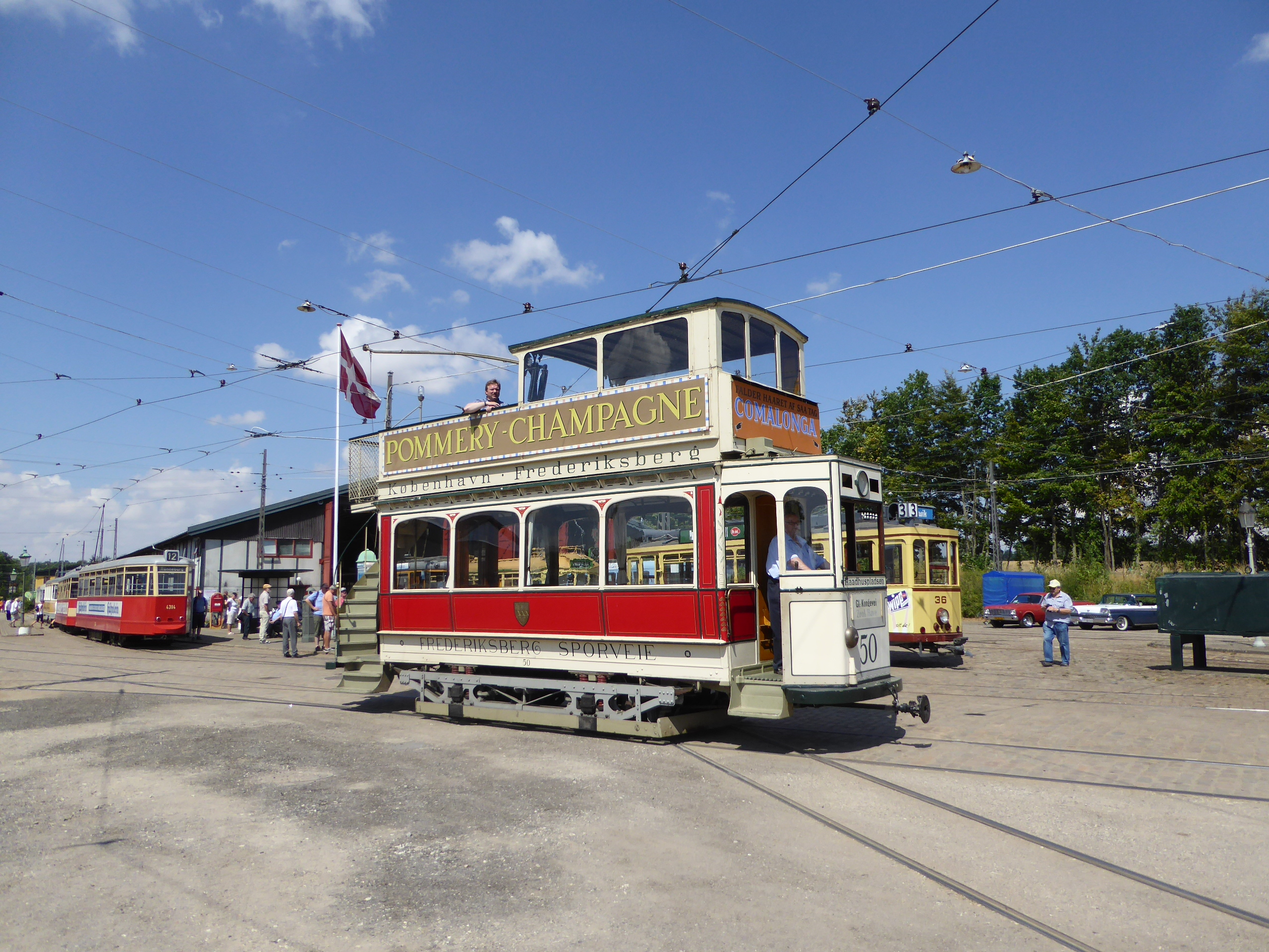 Old tram of Copenhagen, FS 50 from 1915, at Sporvejsmuseet Skjoldenæsholm in Denmark.